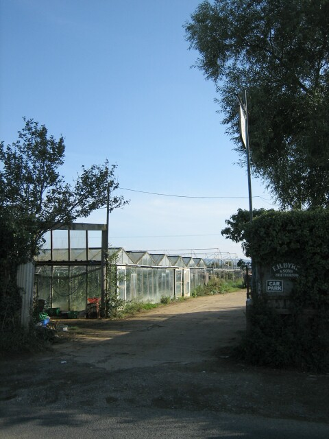 Greenhouses, Bretforton. A market gardening enterprise south of the Bretforton to Badsey road.